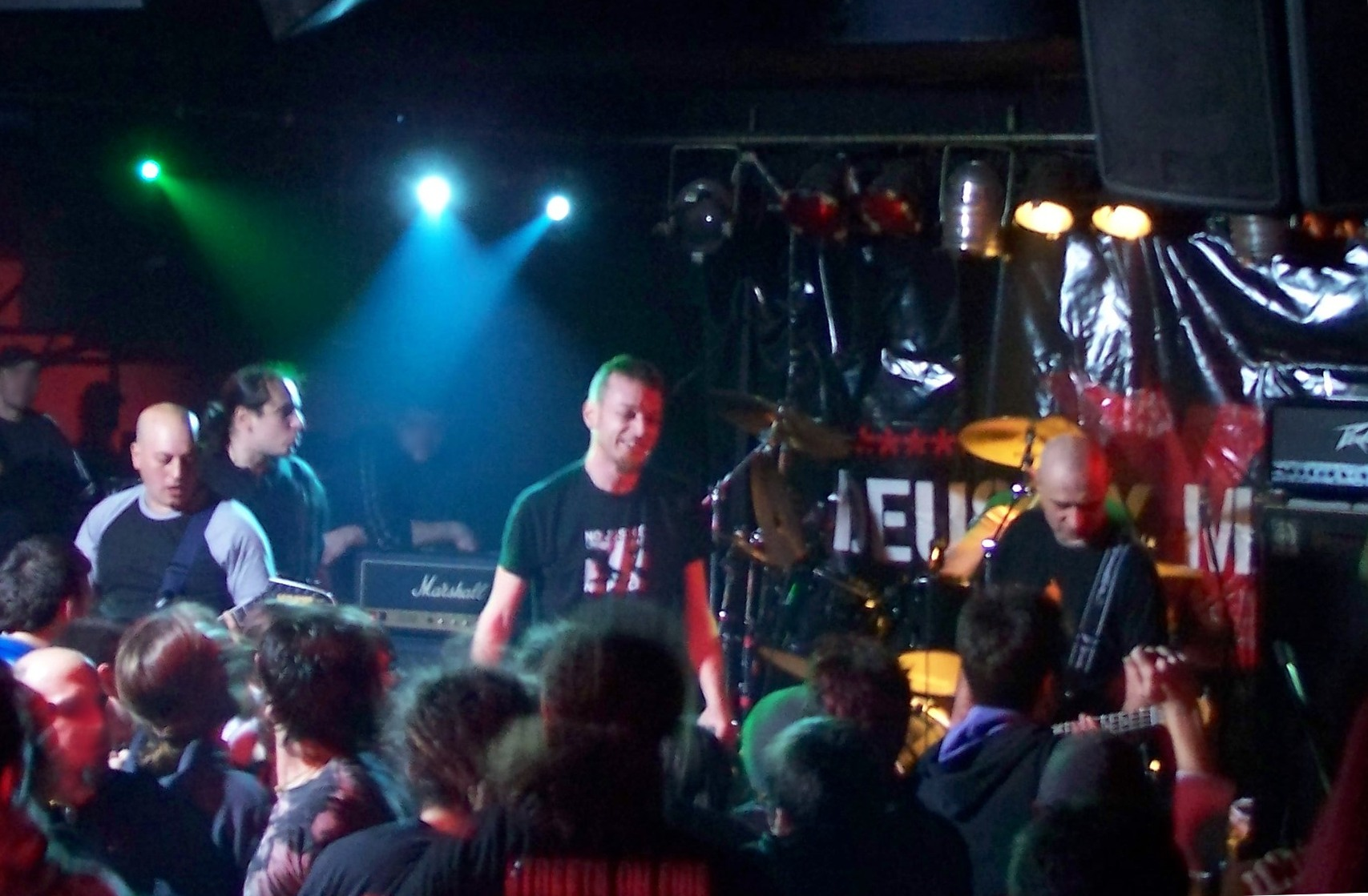 Greek hardcore band Deus Ex Machina live 22 Feb 2007 at An club